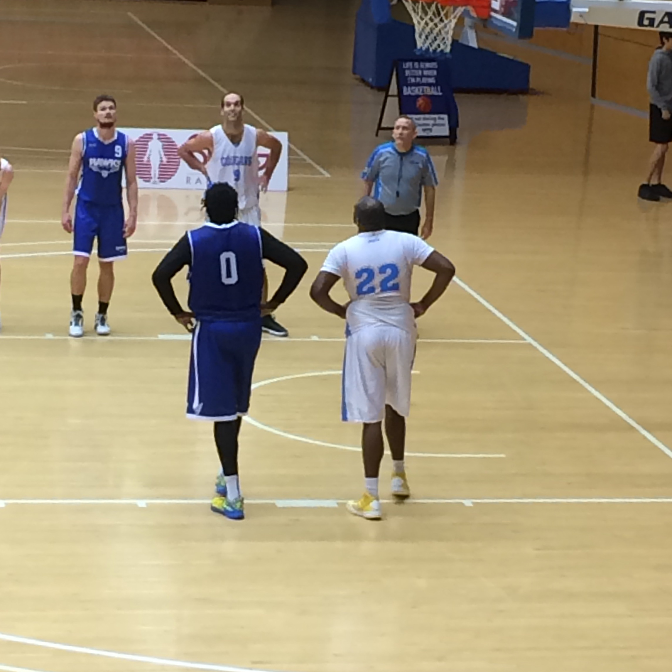 Brian Carlwell and Marcus Goode waiting for a free throw